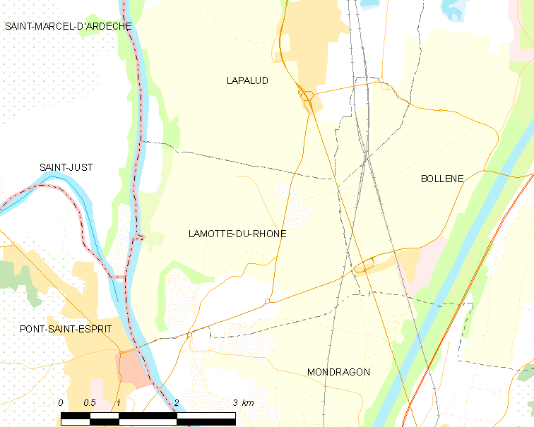 Map of French municipality Lamotte-du-Rhône